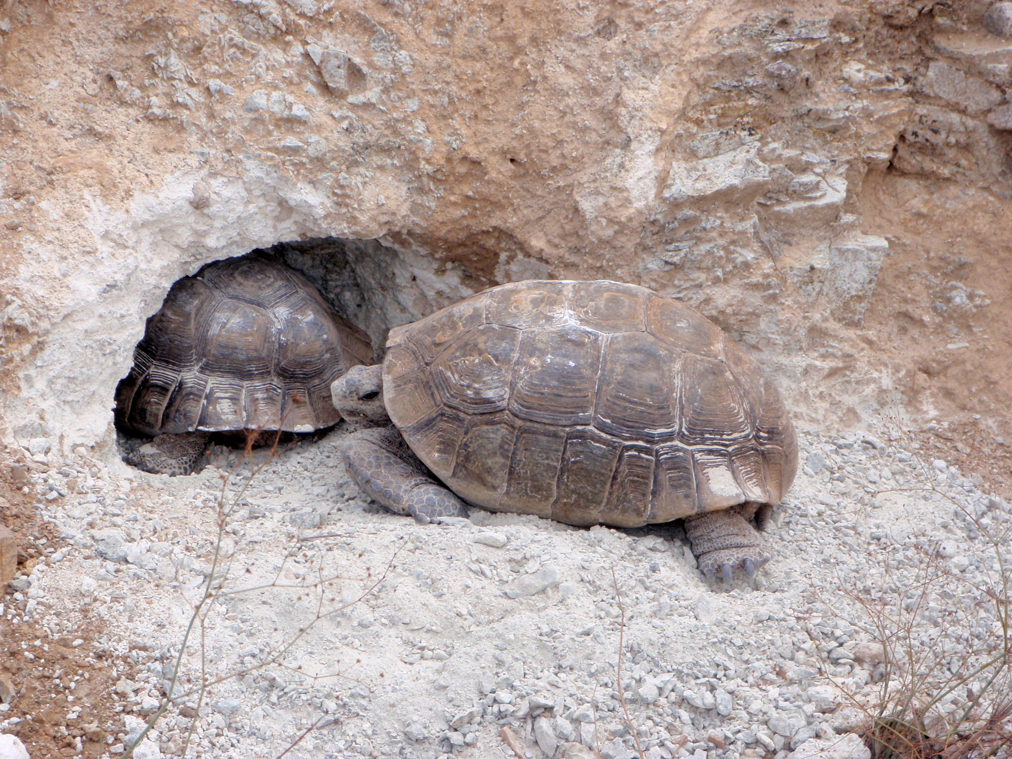 Desert tortoise (Gopherus agassizii) in Joshua Tree National Park